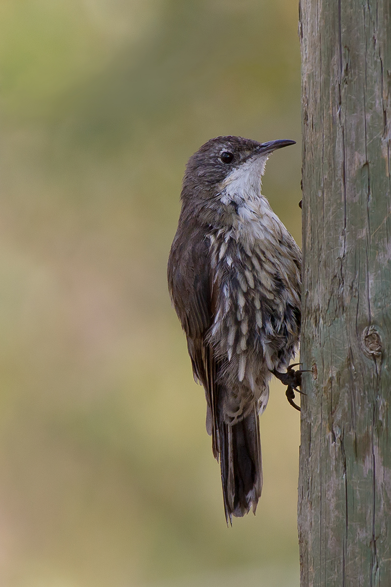 A White-throated Treecreeper in Victoria, Australia.